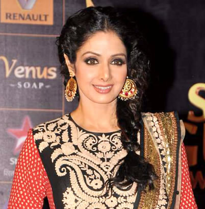 Sridevi at Renault Star Guild Awards 2013